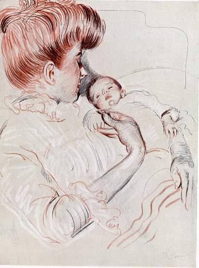 Berceuse (Lullaby) (Alice Guérin with Helleu jr.)